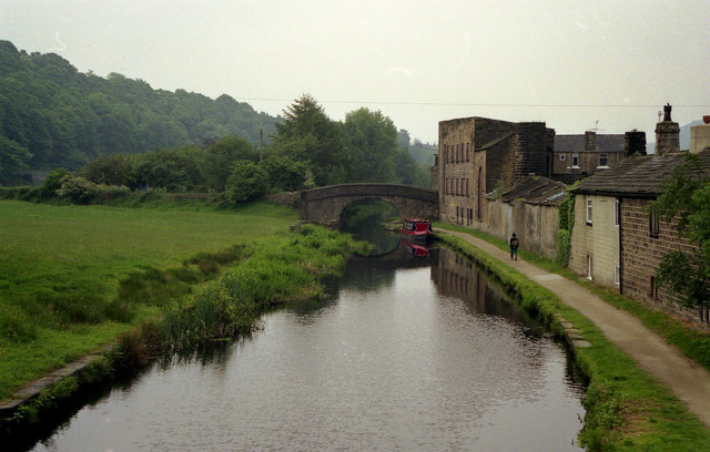 Broadbottom Bridge 13, Rochdale Canal Looking eastwards from Broadbottom Lock.